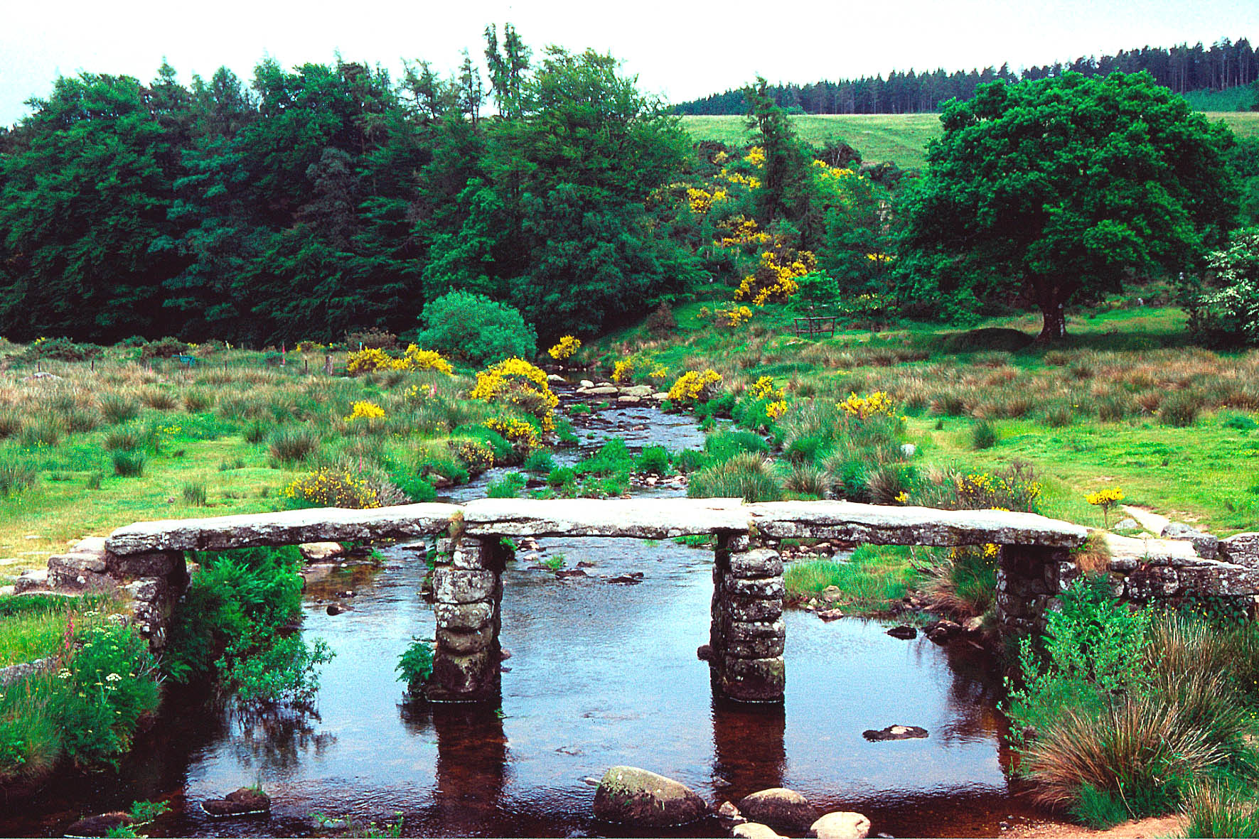 Clapper Bridge at Postbridge, Dartmoor